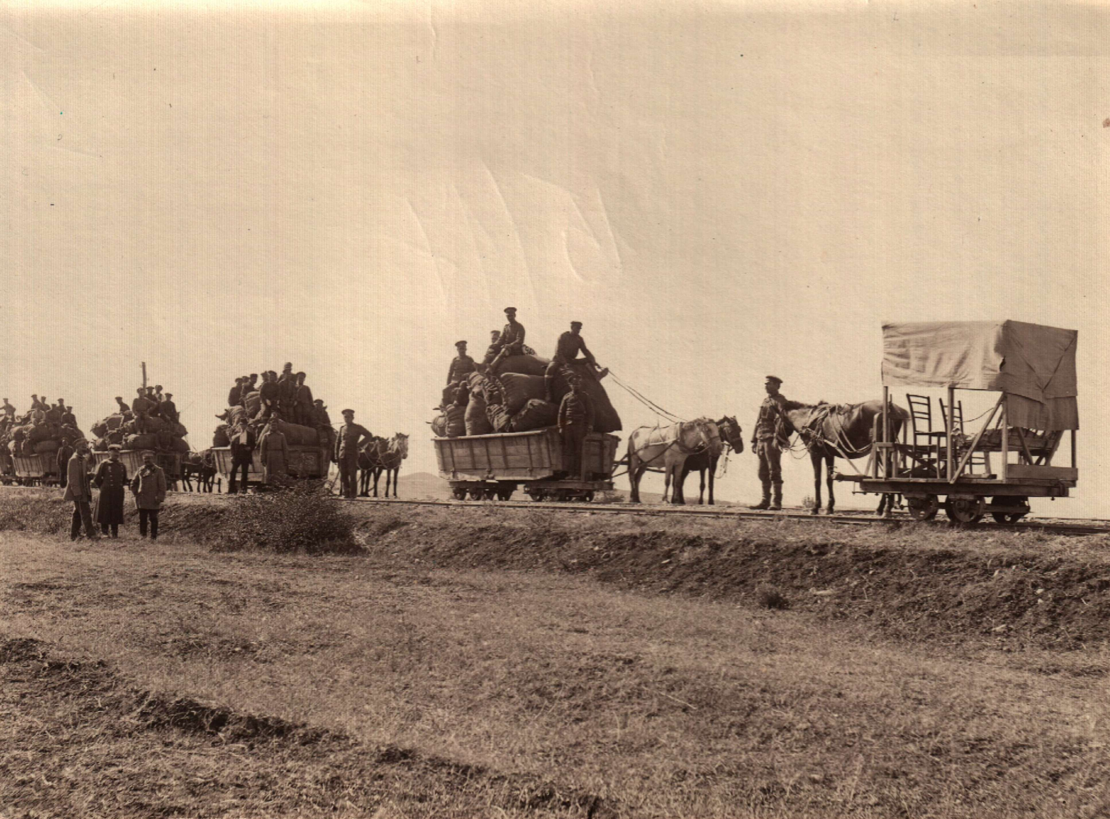 Yambol-Elhovo Narrow gauge railway, Bulgaria, 1917.